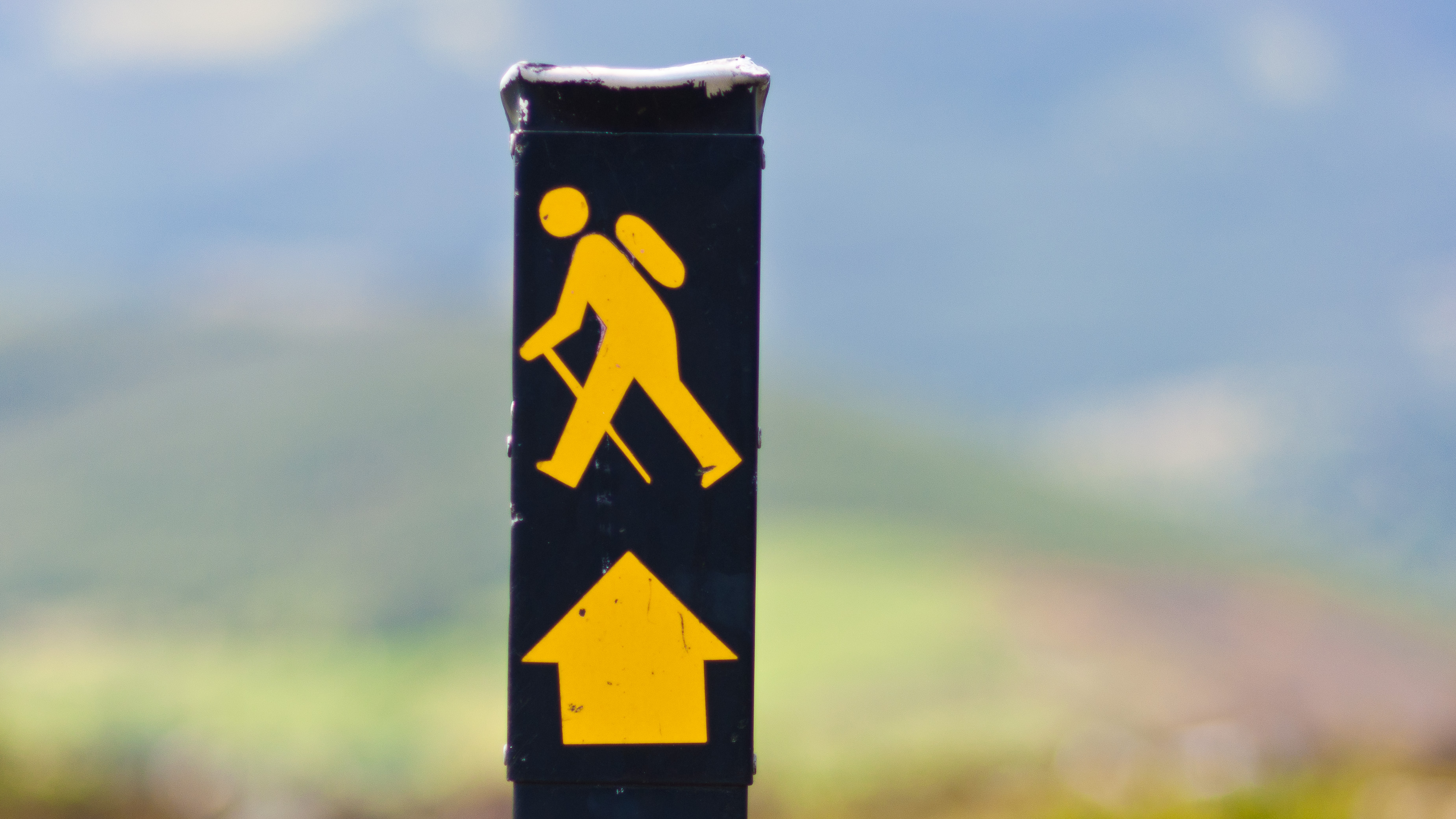 Waymarking sign, comprising an image of a walking man and a directional arrow in yellow, used in Ireland to denote a National Waymarked Trail. The design was copied from the symbol used to waymark the Ulster Way in Northern Ireland and has since become the standard waymarking image used for long-distance trails in the Republic of Ireland.